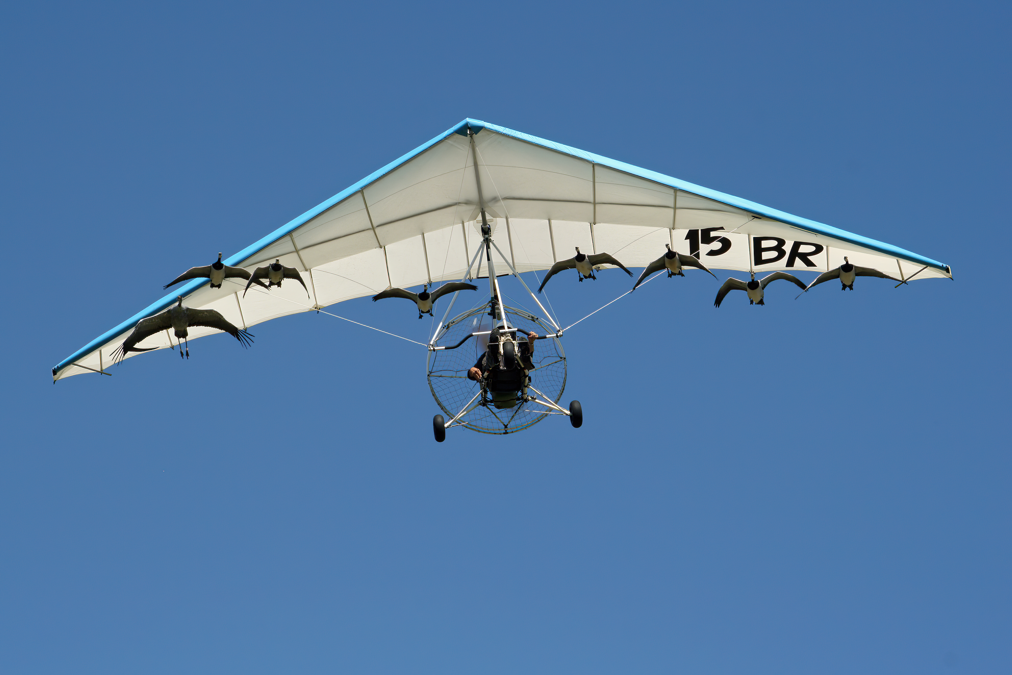 Christian Moullec flying with geese in Dahlem, Germany